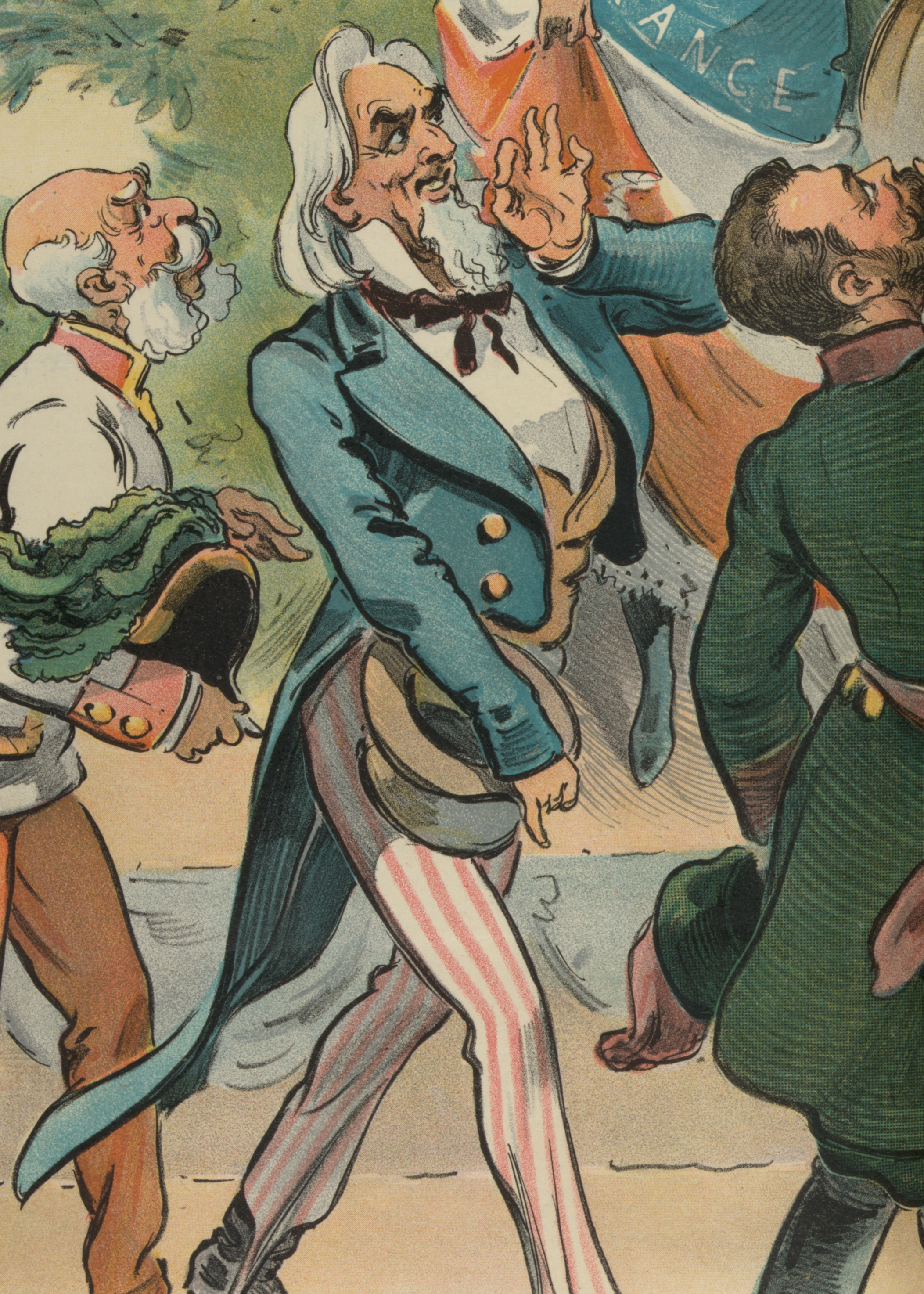 Detail of an illustration satirizing the 1900 Paris Exposition highlighting a caricature of Uncle Sam proffering the "OK" gesture alongside other national leaders and national personifications.